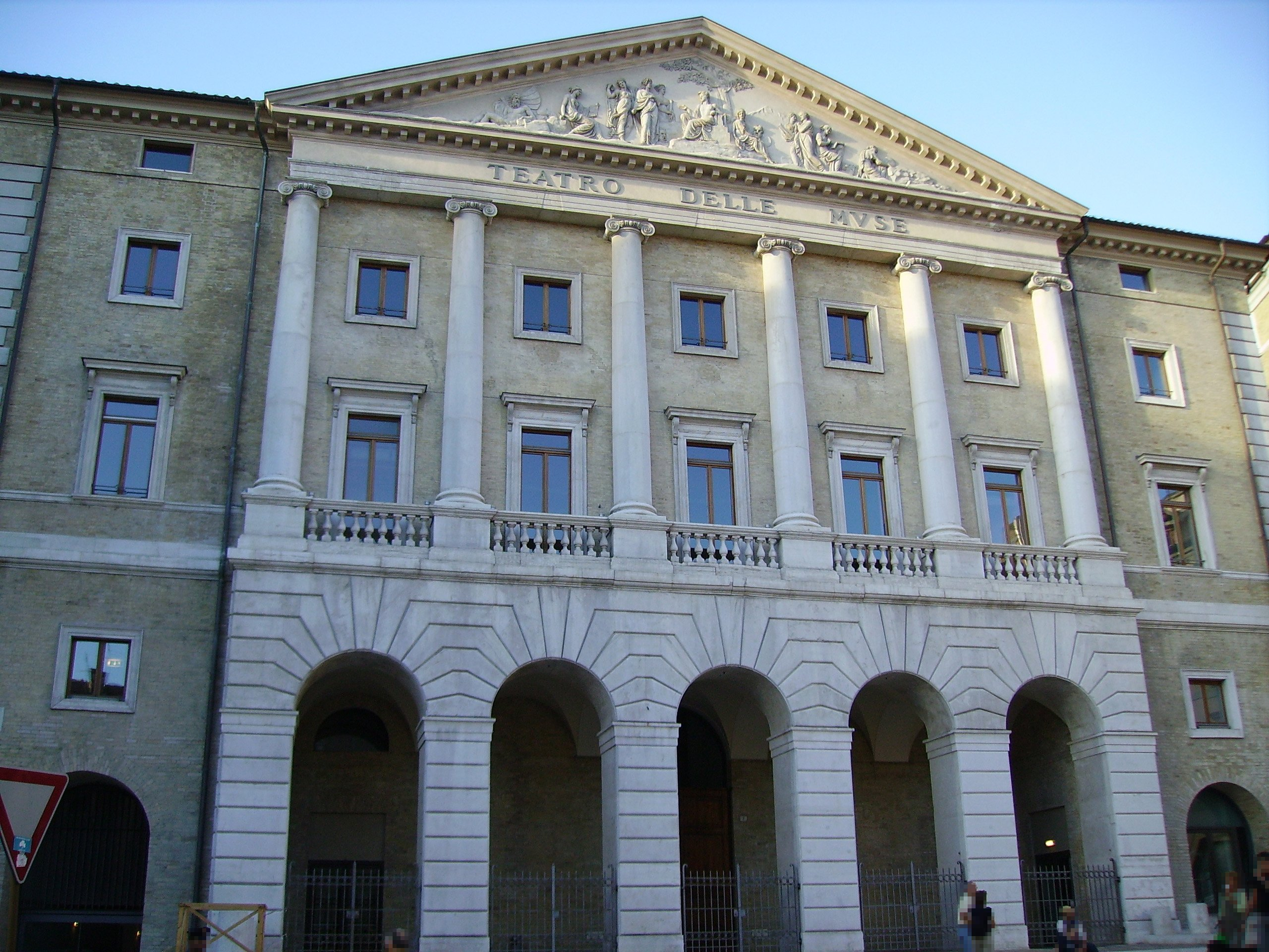 The Muse theatre, in Ancona